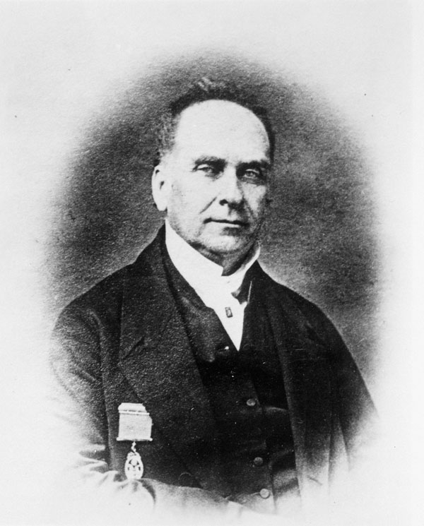 Picture of Robert Baldwin (1804-1857)